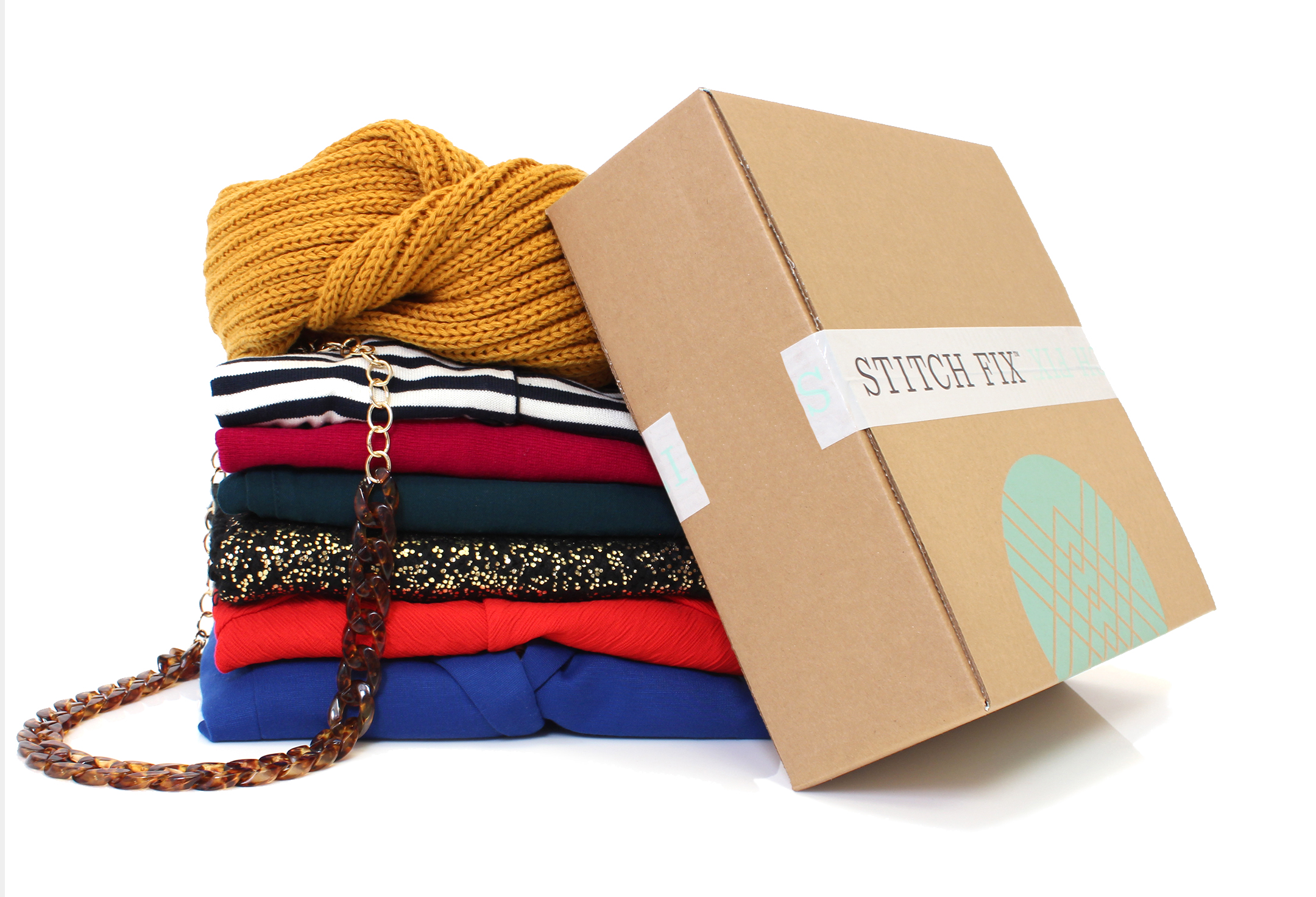 Clothing